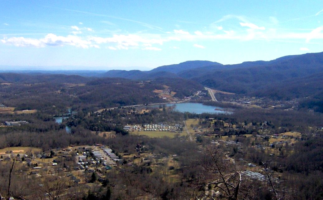 The view looking south from Devils Racetrack, a rocky outcropping at the western end of Cumberland Mountain in Campbell County, Tennessee, in the southeastern United States. Cove Lake and the town of Caryville are below. The northern slopes of Cross Mountain are on the right.